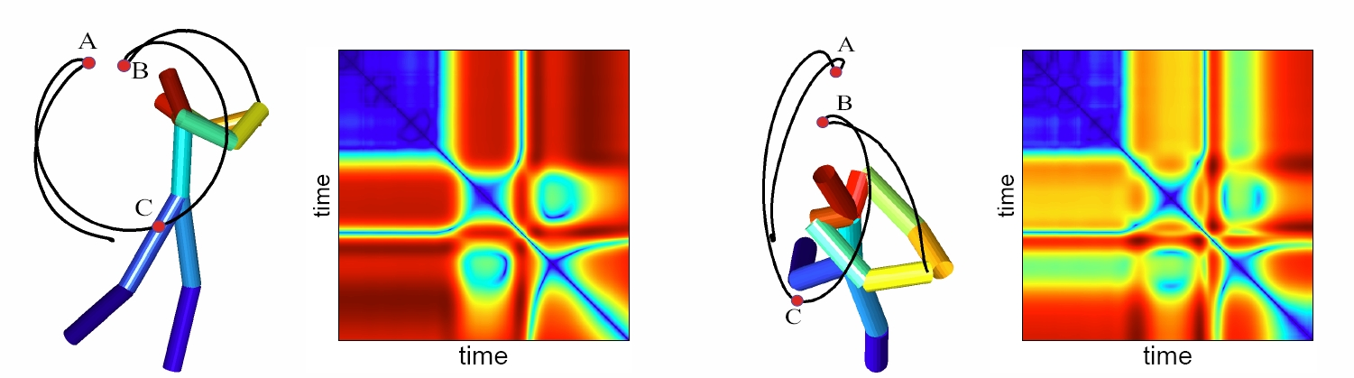 Self-Similarlity Matrices (variants of Recurrence Plots) obtained for two different views of a person performing a golf swing. From: "Cross-View Action Recognition from Temporal Self-Similarities" (2008), I. Junejo, E. Dexter, I. Laptev, and Patrick Pérez; in Proc. ECCV'08, Marseille, France.